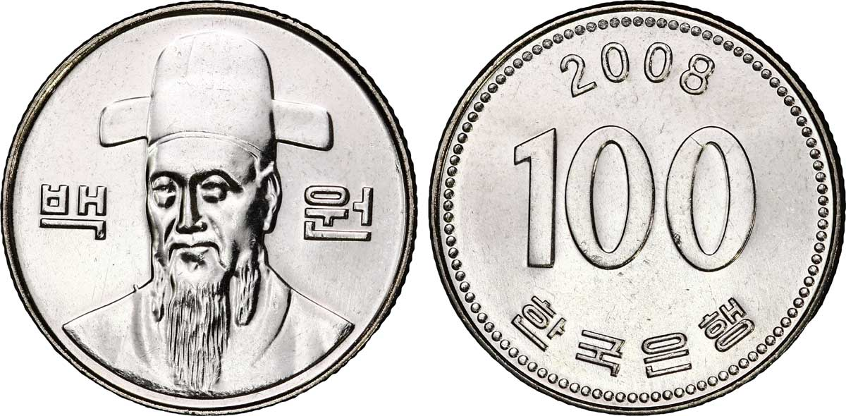 CORÉE DU SUD, 100 Won à l'effigie de l'Amiral Yi Sun-Shin. L’ amiral Yi Sun-Shin est considéré comme un héro national en Corée. Lors de la Guerre Imjin (1592-1598), il repousse par deux fois les tentatives d’invasion des japonais..